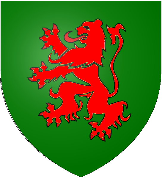 Coat of Arms of Narnia: Vert, a lion rampant gules. The colors are based on the "great banner of Narnia", described as a "red lion on a green ground" in chapter XII of the book The Horse and His Boy -- though the shields of Peter (as described in chapter 10 of The Lion, the Witch, and the Wardrobe--see illustration at and of Rilian (as described in chapter 13 of The Silver Chair--see illustration at have a red lion on silver.